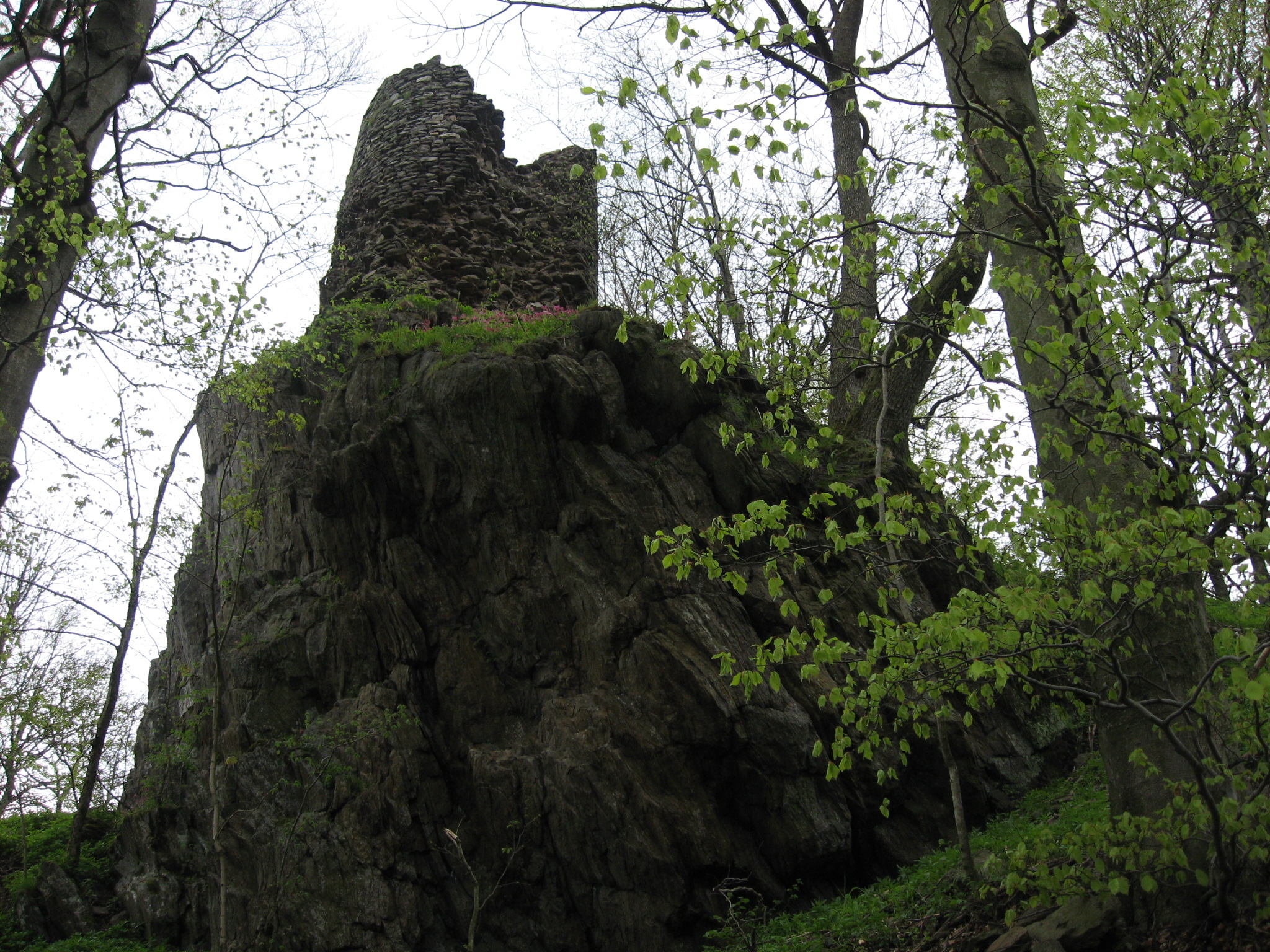 Castle (ruin) Starý Herštejn - view for the bottom